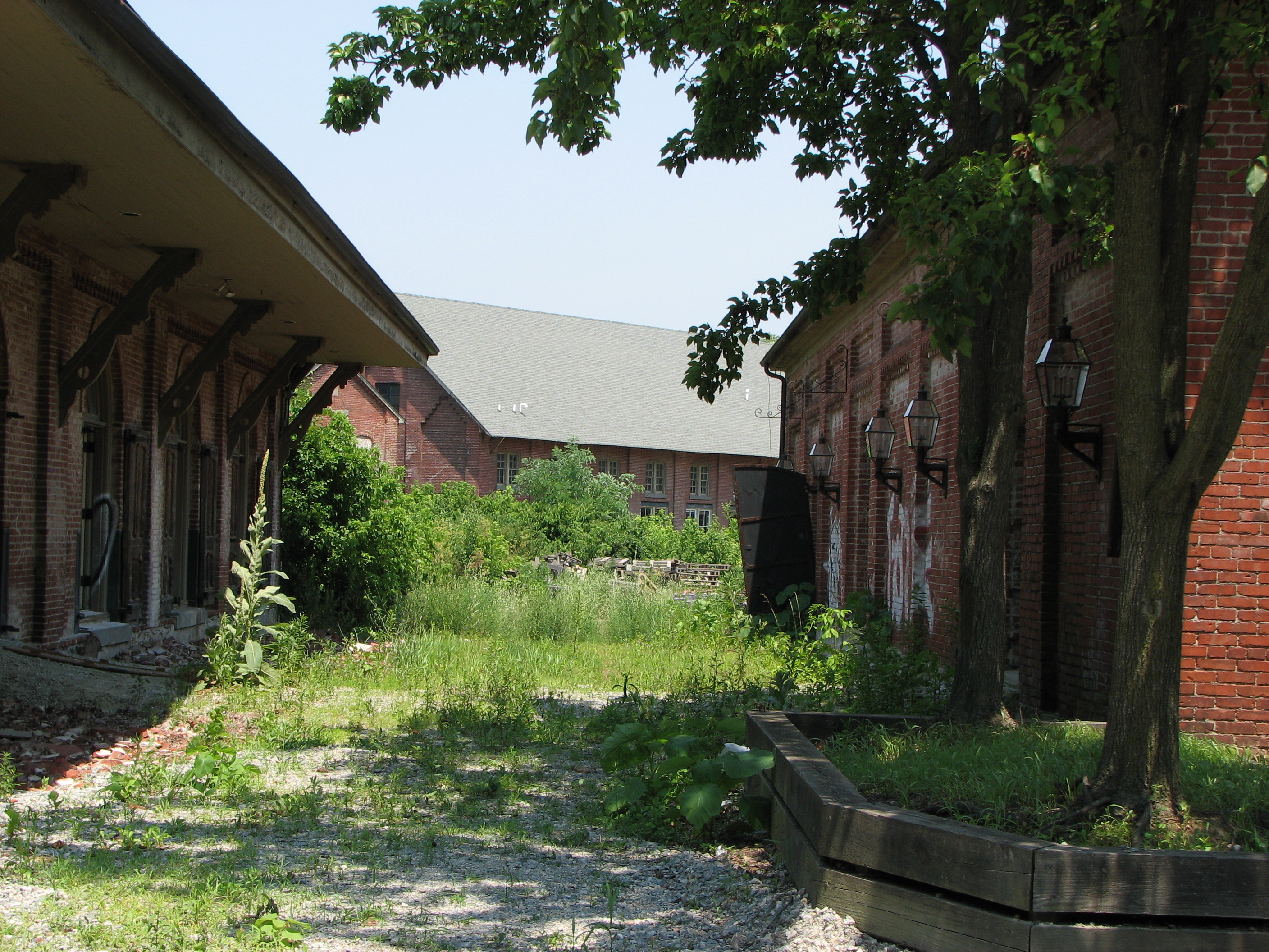 Flood-damaged and vandalized buildings at the Garrett Snuff Mill in Yorklyn, Delaware. Former Warehouses A and D are foreground left and right; the former packing building is in the background.